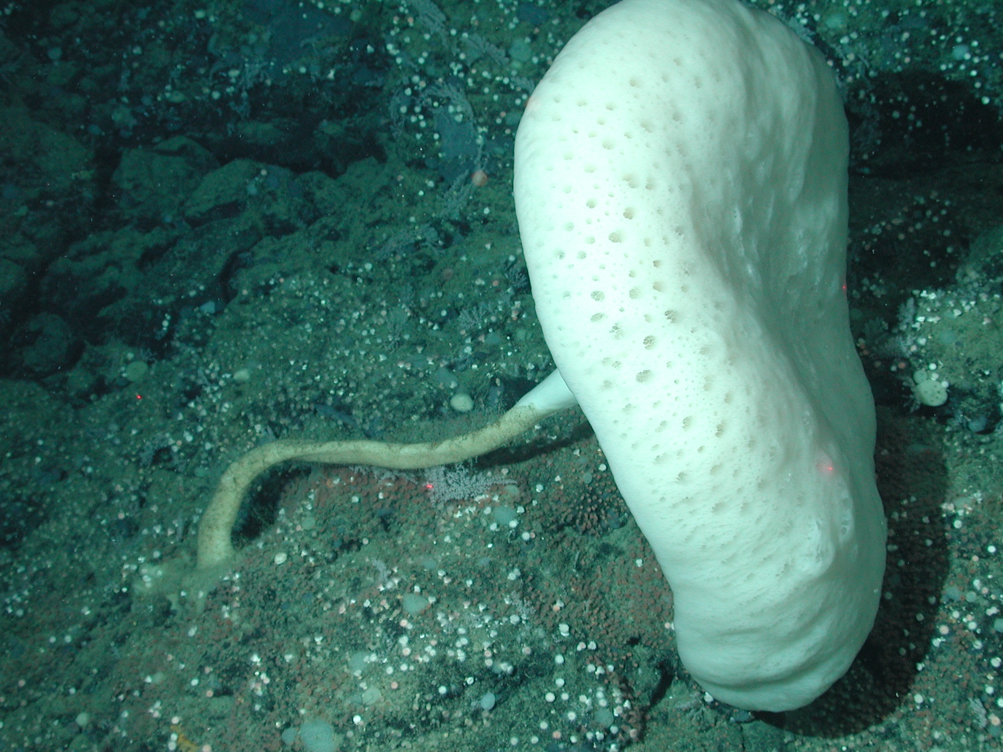 Caption: White mushroom sponge (Caulophacus sp.) Image ID: expl0816, Voyage To Inner Space - Exploring the Seas With NOAA Collection Location: California, Davidson Seamount